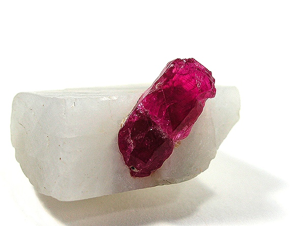 Calcite, Corundum Locality: Mogok, Pyin Oo Lwin District, Mandalay Division, Burma (Myanmar) (Locality at ) Size: thumbnail, 2.1 x 1.5 x 1.2 cm Ruby with Calcite Incredibly gemmy ruby crystal, perched on matrix! This redefines what you might expect in a gem ruby specimen, particularly on matrix. Seldom are they GEMMY as opposed to "gemmy"...